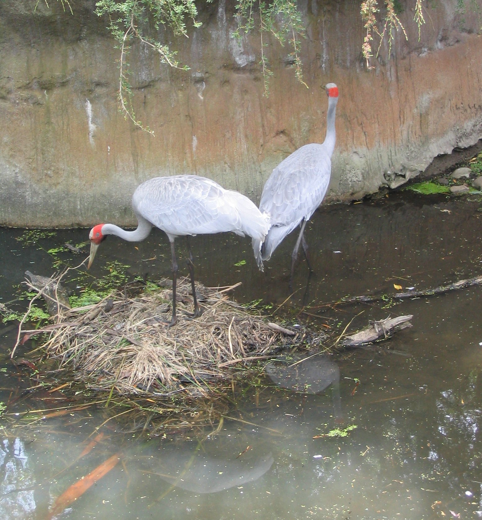 Brolgas (Grus rubicunda) in Healesville Animal Sanctuary, near Melbourne, Australia.